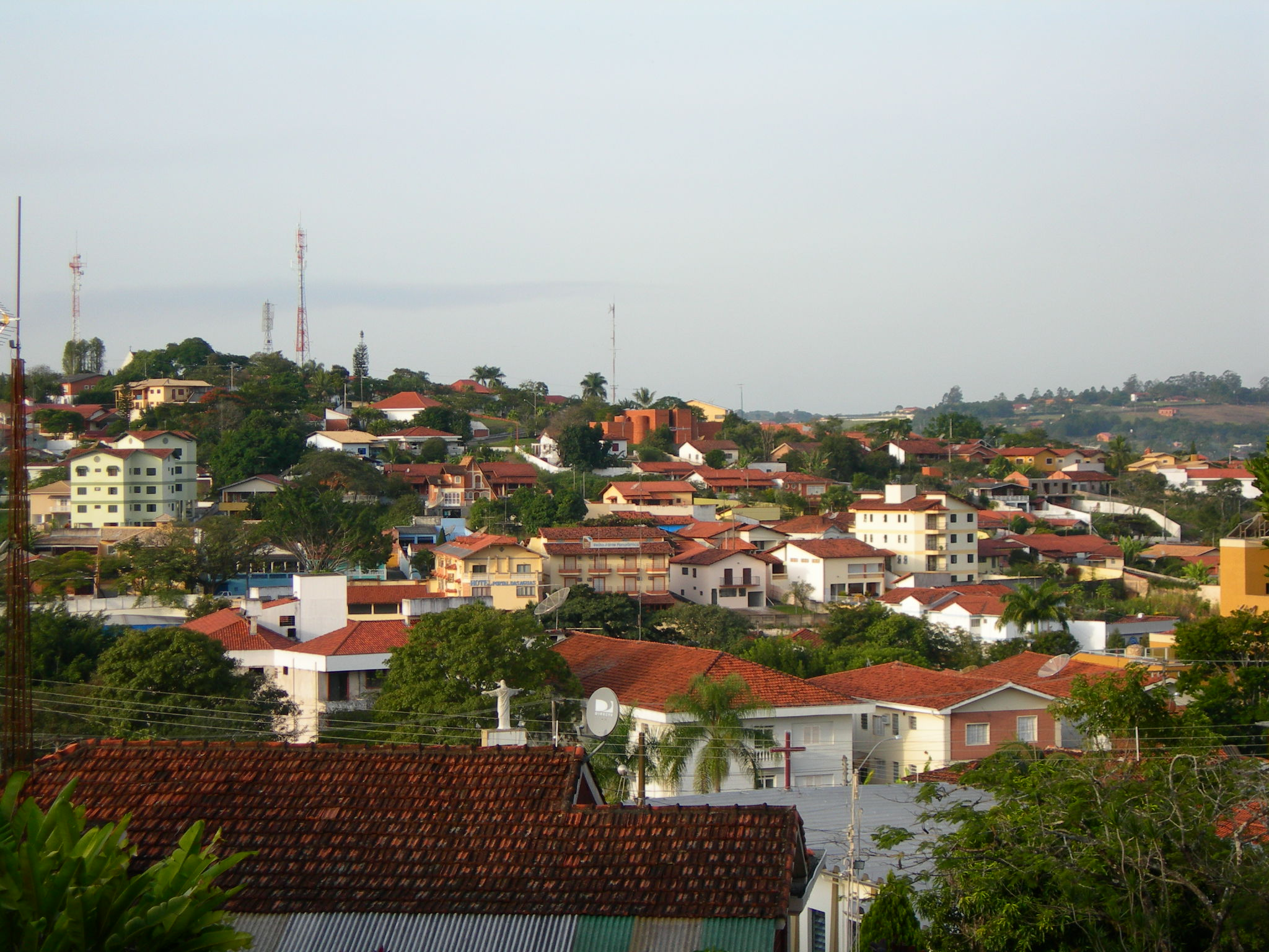 Águas de São Pedro landscape, Brazil.